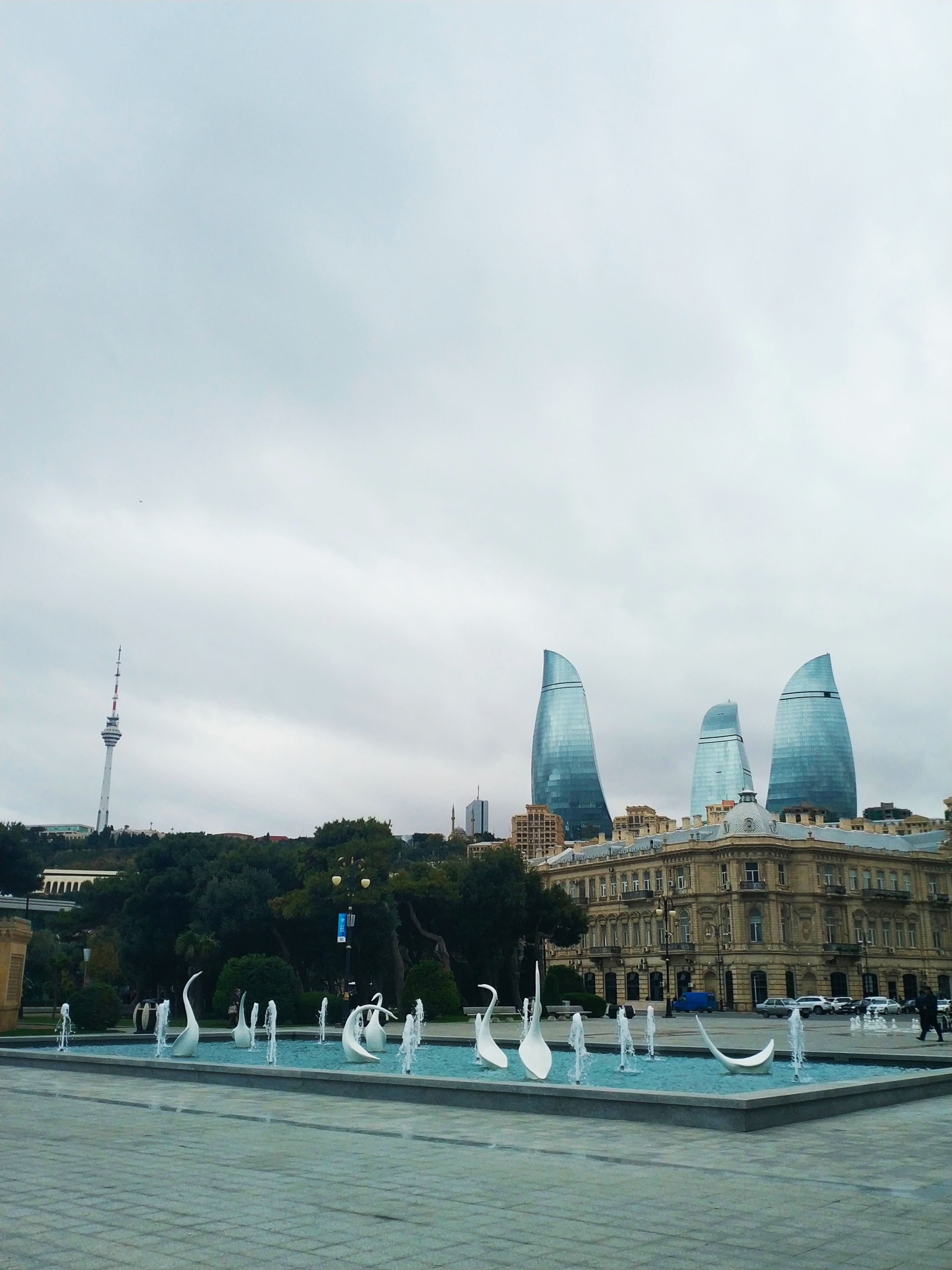 Boulevard Baku